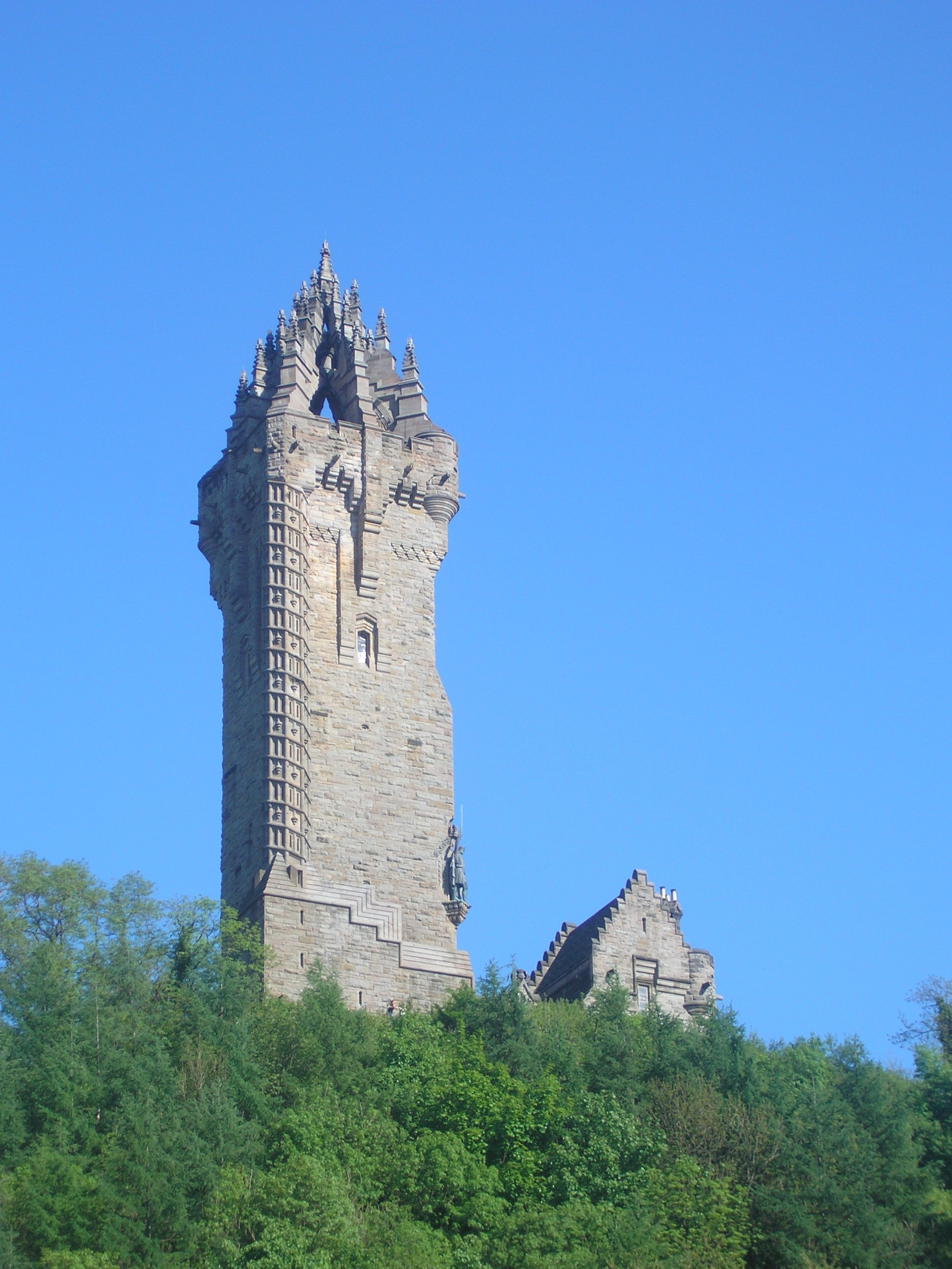 Picture of the Wallace Monument